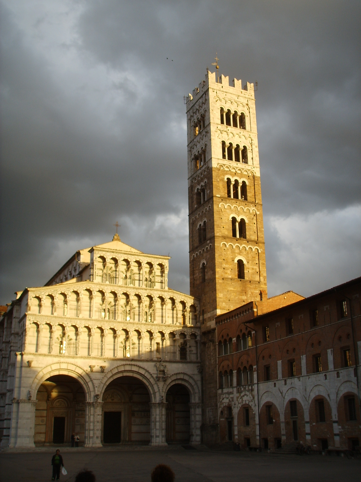 The Cathedral of St Martin (Duomo di Lucca) and its campanile in Lucca, Tuscany, Italy.